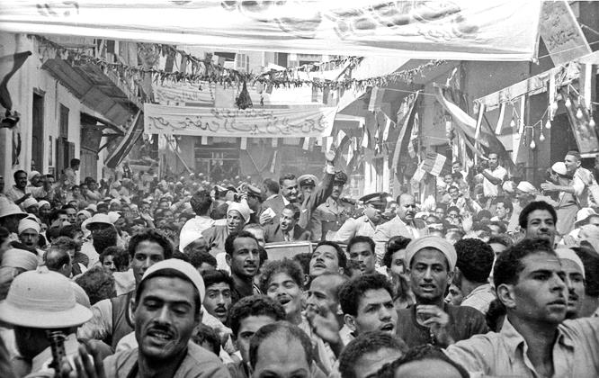 President Gamal Abdel Nasser with crowds in the town of Rashid, before attending a military parade in the city to commemorate the Suez War